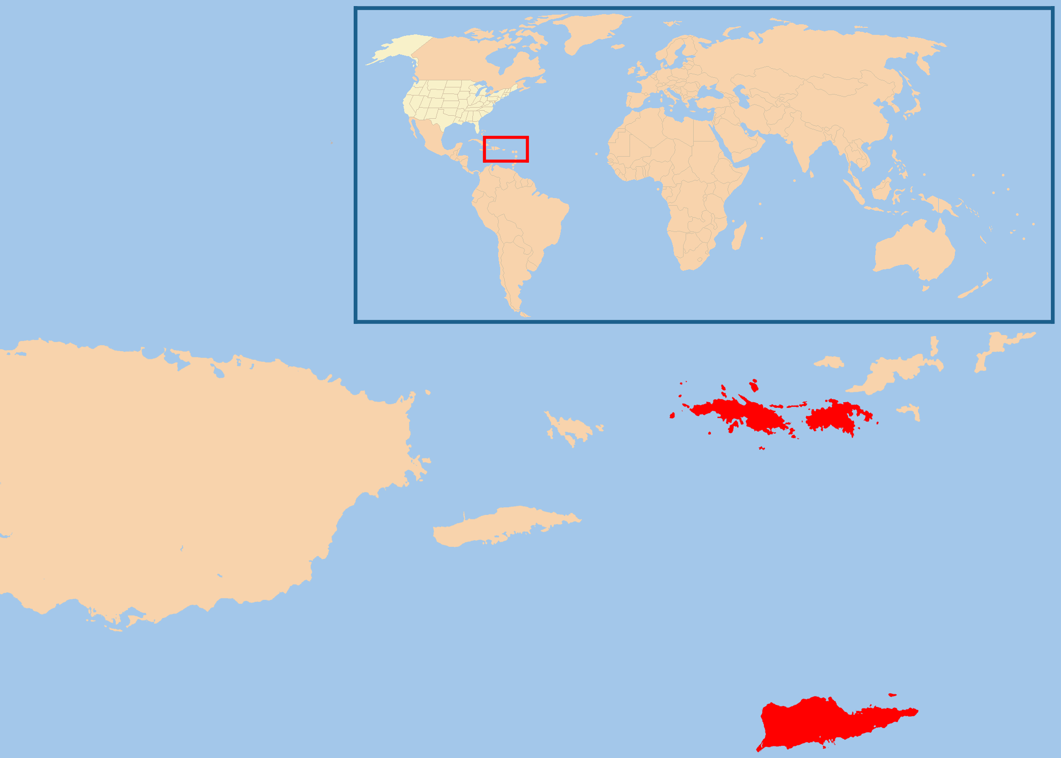 Locator map of United States Virgin Islands — in the Caribbean.